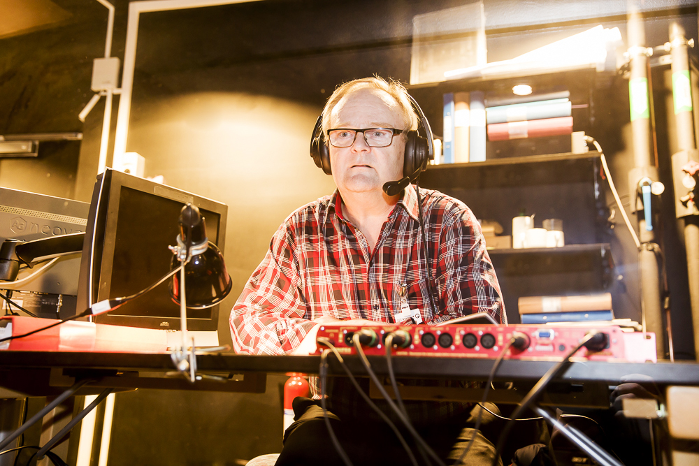 Audio desciber Peter Lilliecrona during a live audio description session at the City Theatre of Gothenburg.